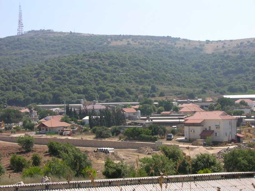 partial view of moshav Margaliot